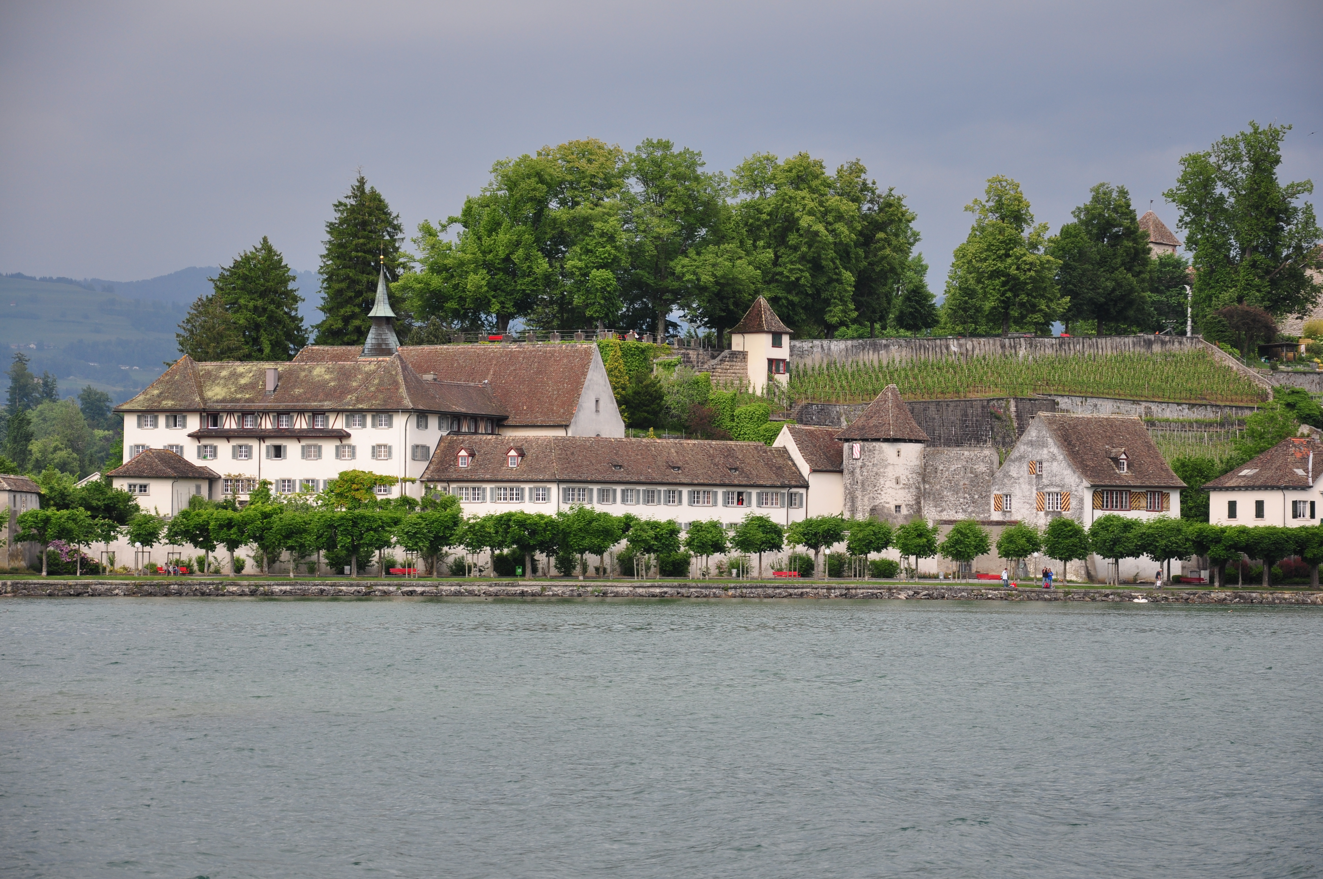 Capuchin monastery in Rapperswil (SG), as seen from Seedamm, Einsiedlerhaus to the right, Lindenhof in the background.